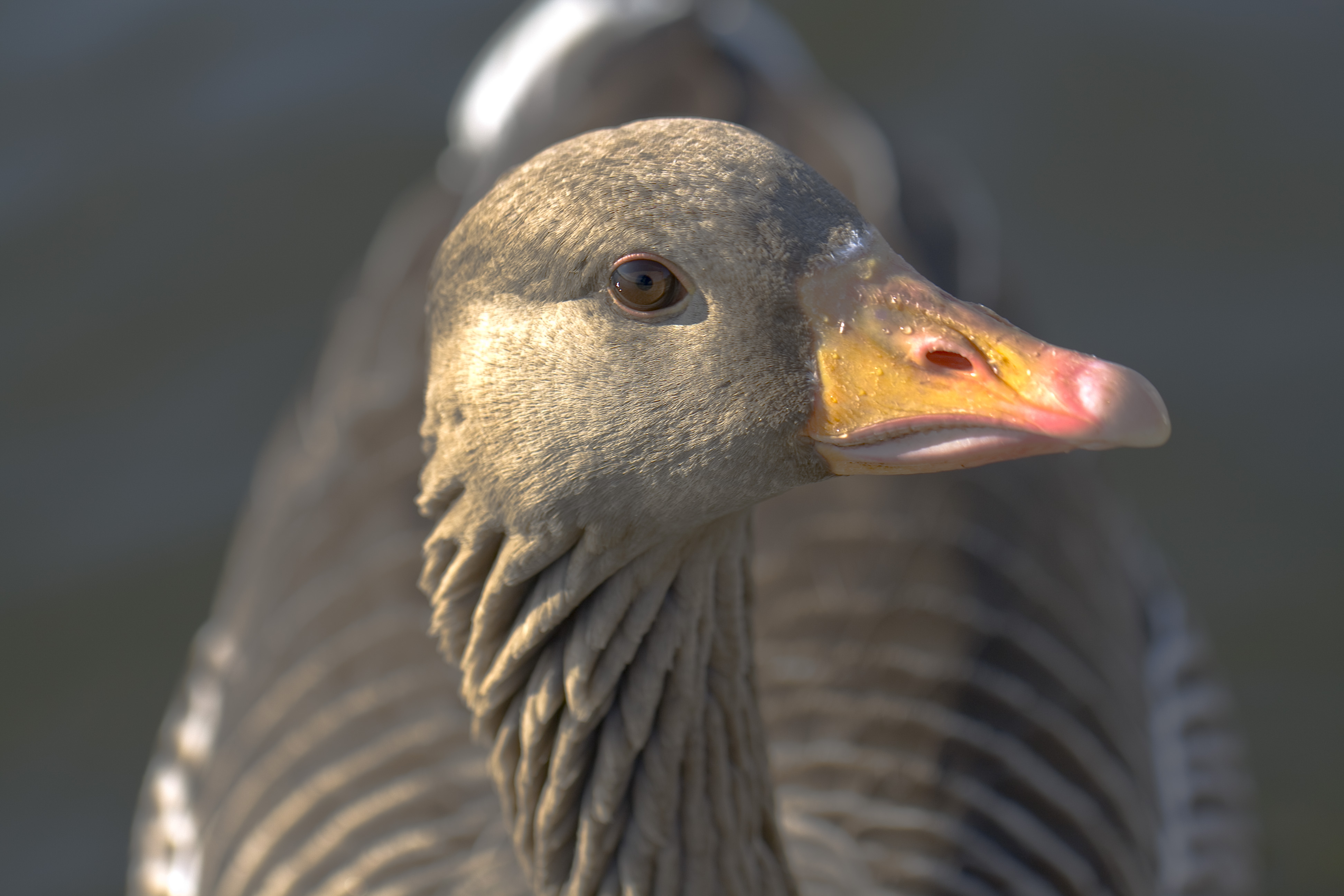 Greylag Goose (Anser anser) at the Palace of Nymphenburg, Munich, Germany